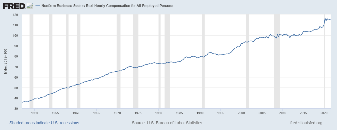 Real compensation USA